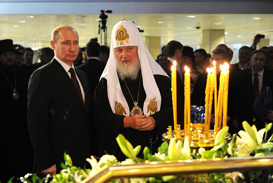 Patriarch Kirill of Moscow and all Russia and Vladimir Putin open an exhibition "Orthodox Russia" during the 2013 National Unity Day celebrations